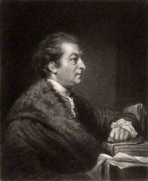 Portrait of Samuel Dyer (1725–1772), English translator.